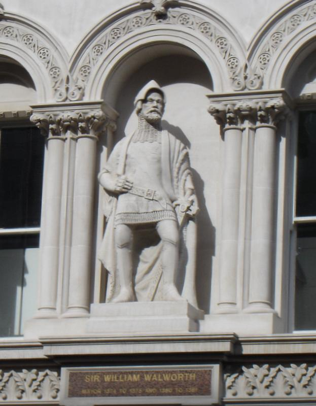 Statue Of Sir William Walworth, Holborn Viaduct, London, England